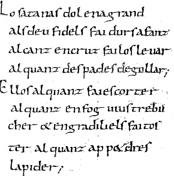 Excerpt from Passion du Christ de Clermont-Ferrand, f. 4, bottom half of 2nd column.